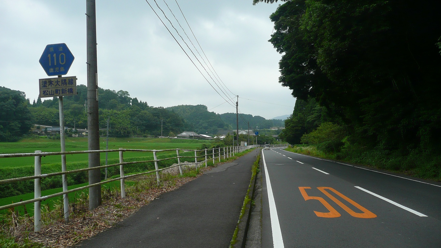 Kagoshima Prefectural Road No.110 Nuriki-Osumi Line (Matsuyama, Shibushi City, Kagoshima, Japan)